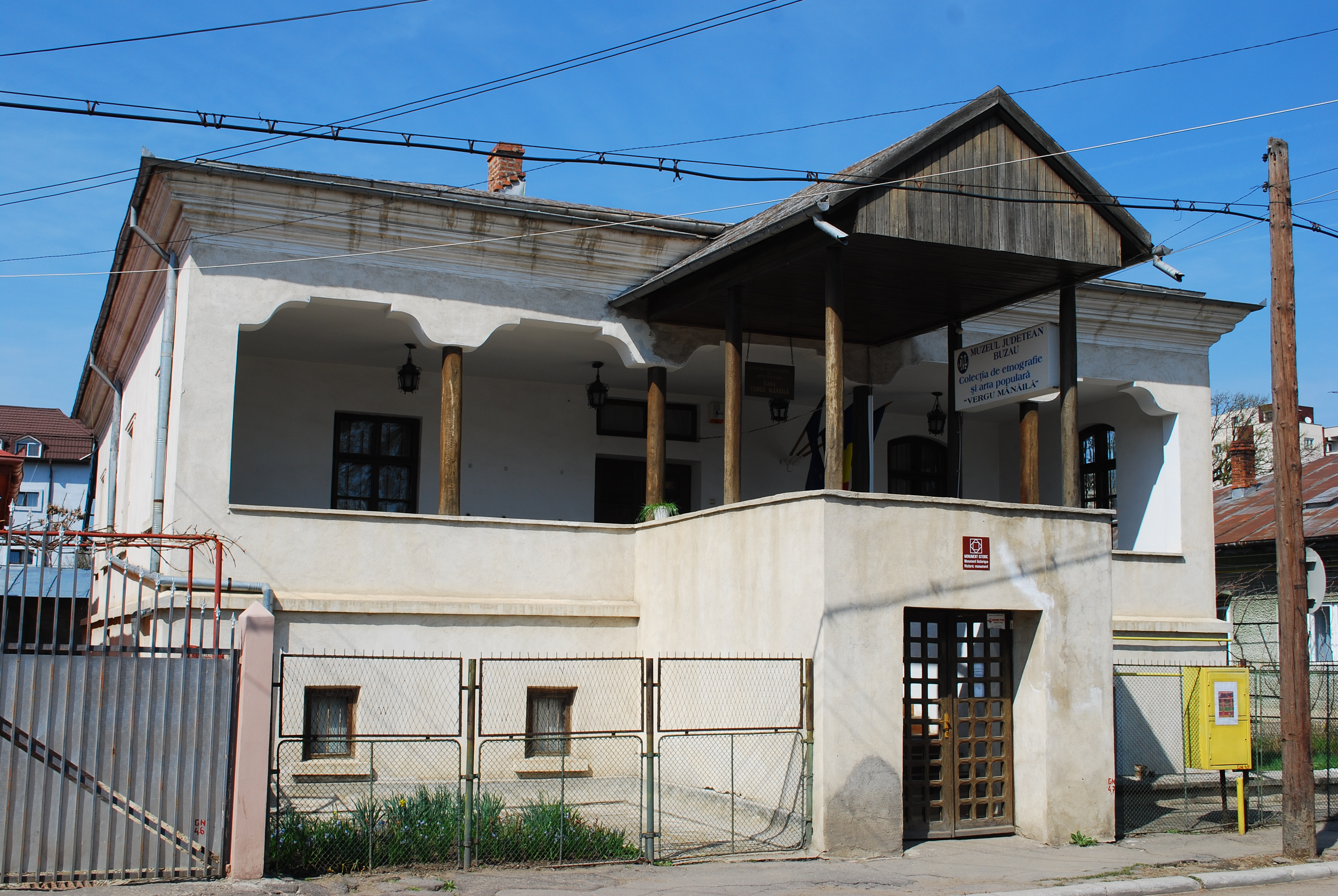 Vergu-Mănăilă house in Buzău, Romania, an 18th century historic buildingRomână: Casa Vergu-Mănăilă din Buzău, România, monument istoric din secolul al XVIII-lea